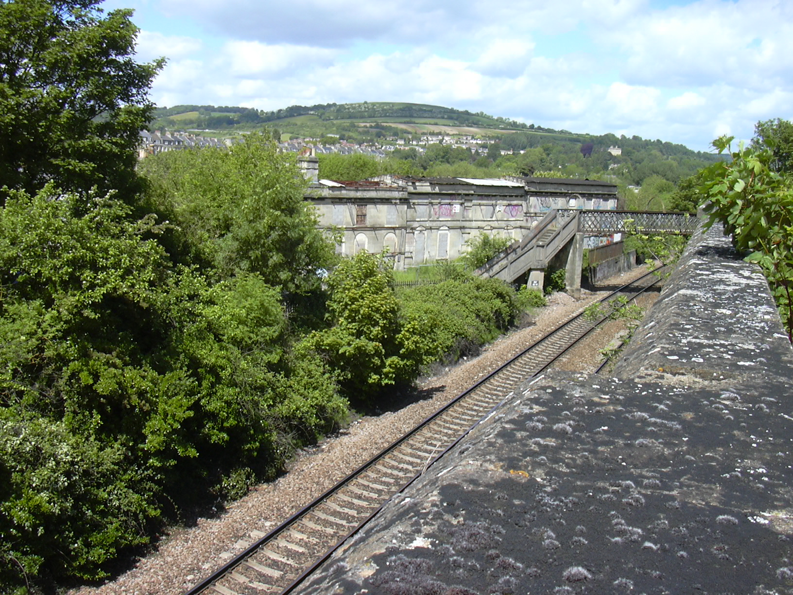 The Site of this disused station seen from the embankment of the Kennet and Avon Canal. In the right middle distance is a footbridge over the Bristol to London mainline. The up platform of the station was on the far side of the tracks in front of the footbridge, beyond the Bridge was a signal box. The down platform is out of sight beyond the bridge on the right.